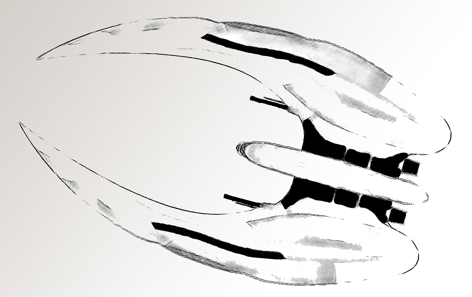 My personal vision of a Cylon Raider, from the TV series Battlestar Galactica (pencil and ink)